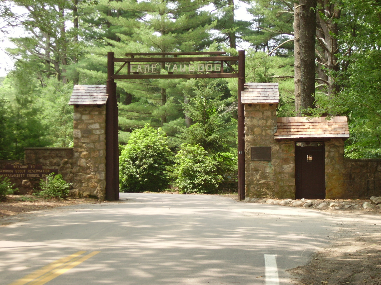 T. Dawnson Brown Gates of the Yawgoog Scout Reservation